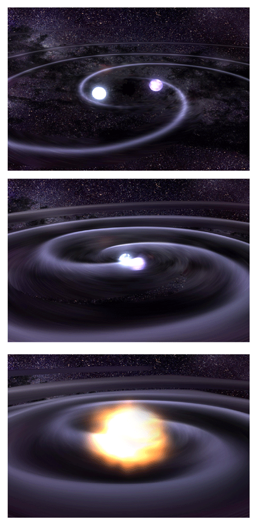 Three still pictures that show the white dwarfs circling each other and then colliding.